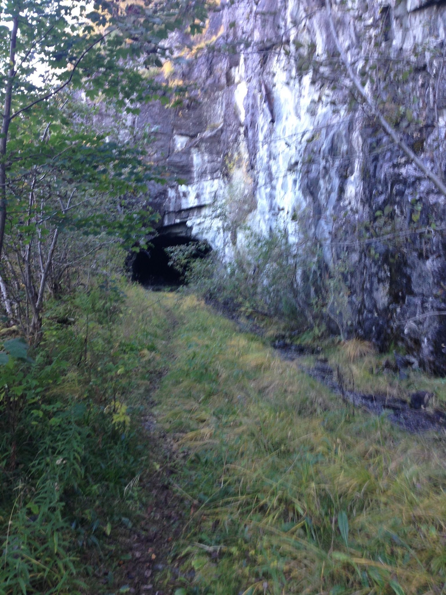 Old Runehamar tunnel